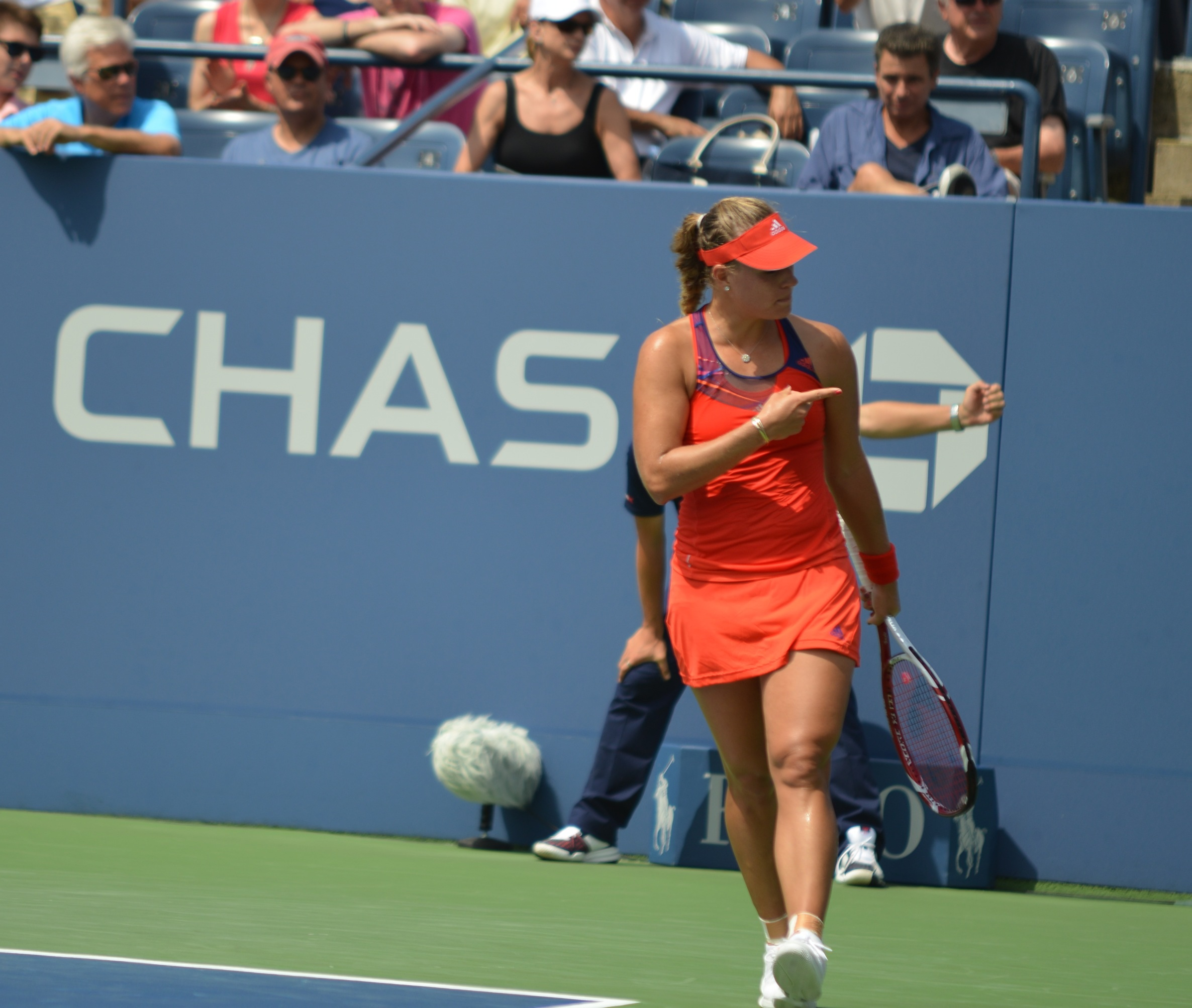 Angelique Kerber at the 2013 US Open